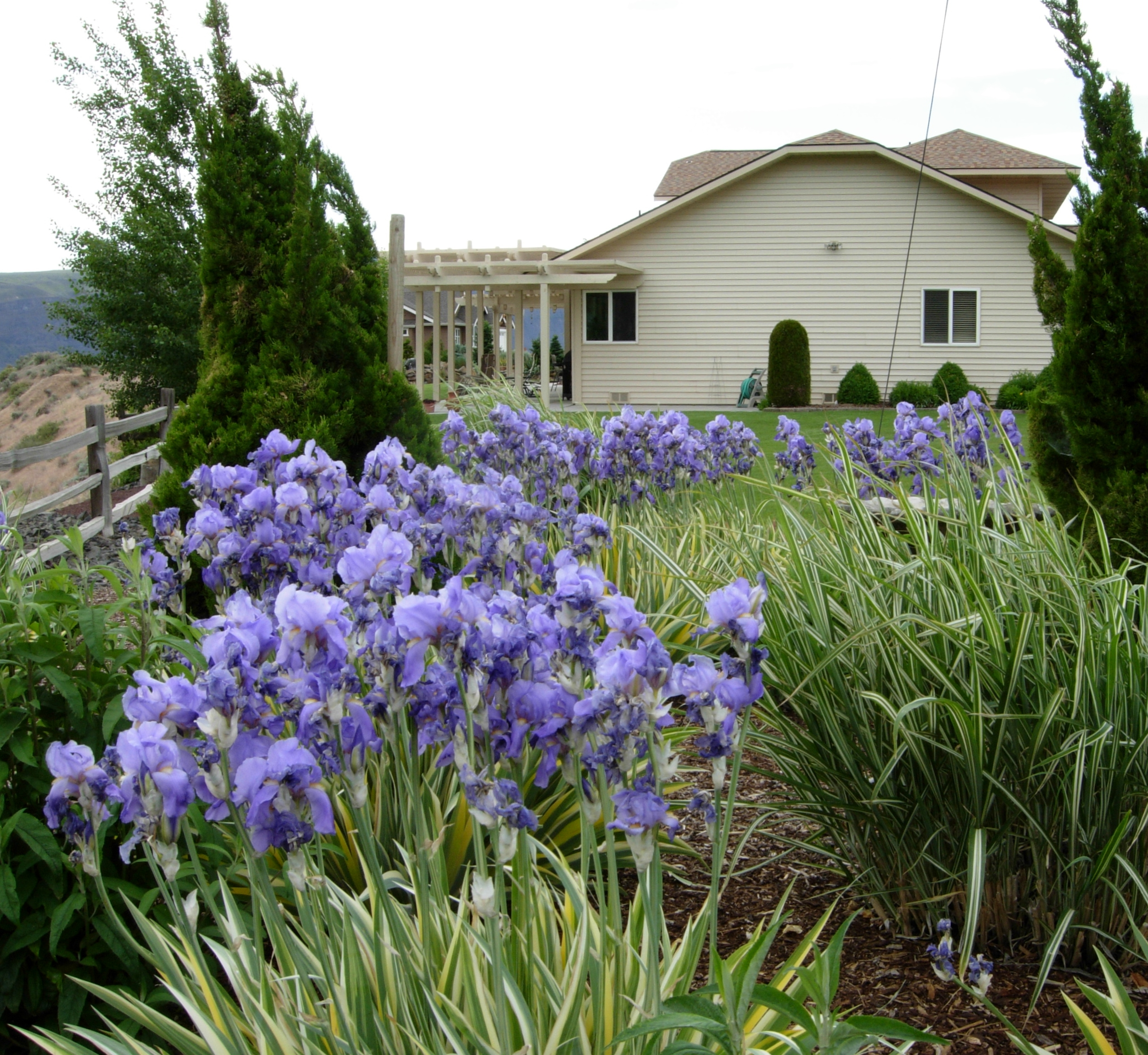 Cliff House Overlooking Crescent Bar, near Quincy WA